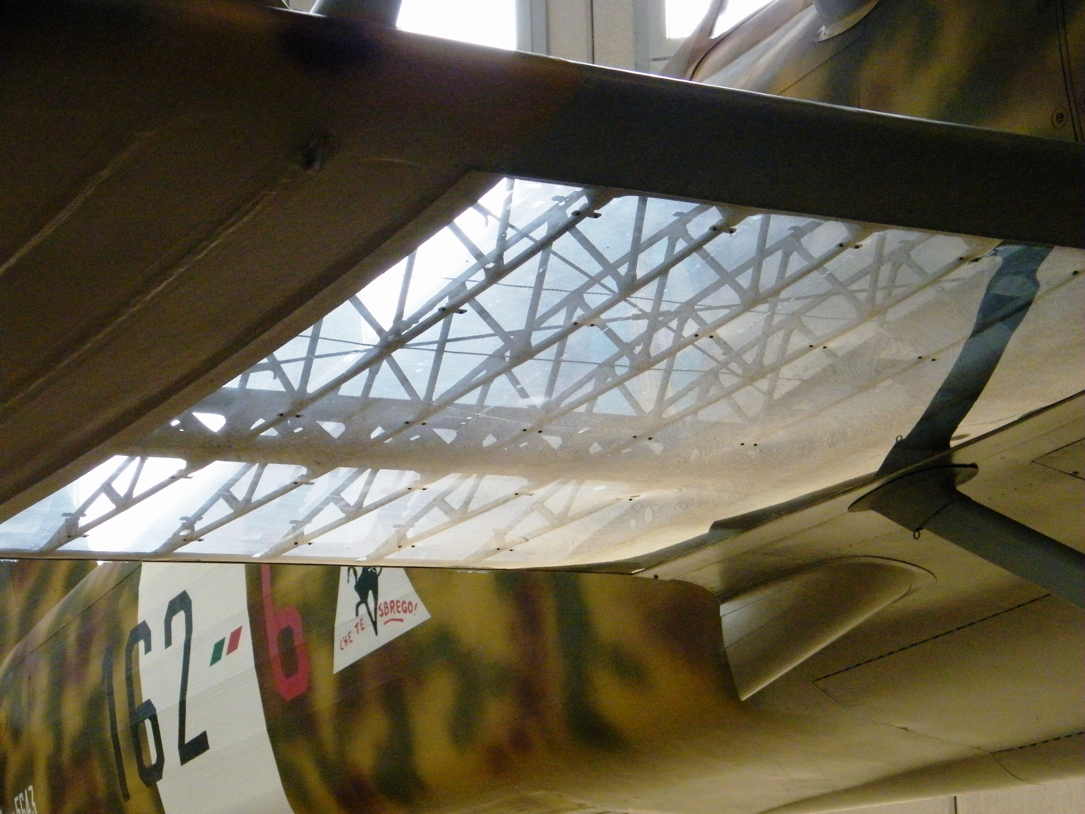 Wing detail of a Fiat C.R.42 at the Italian Air Force Museum, Vigna di Valle